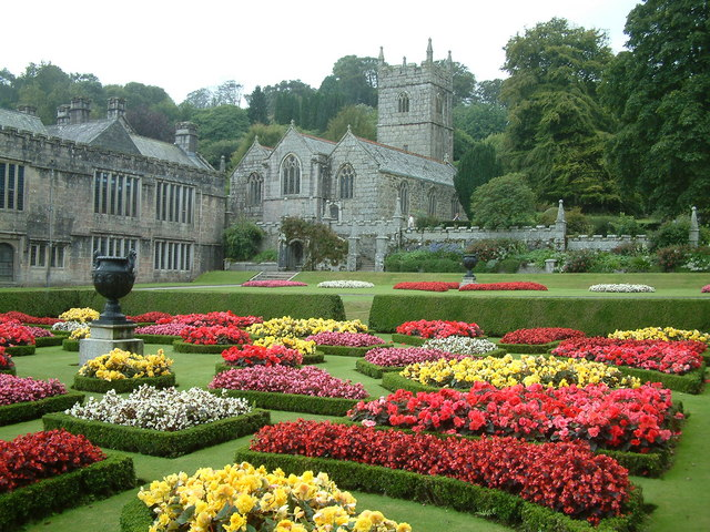 Lanhydrock, The Church and the Gardens. The well maintained gardens ensure that this spot is a favourite viewing place all the year round.